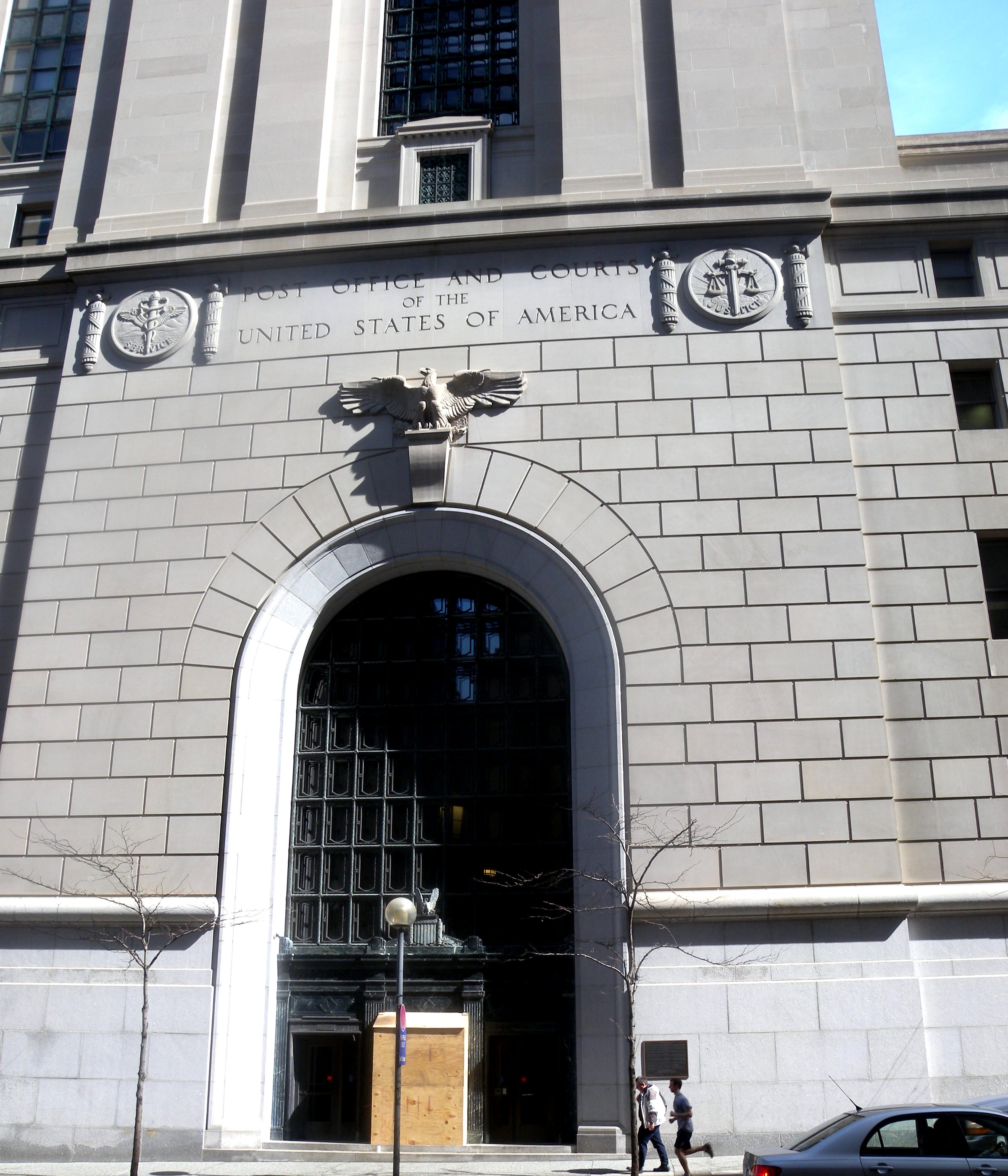 Looking east at southern Grant Street door on a sunny afternoon.